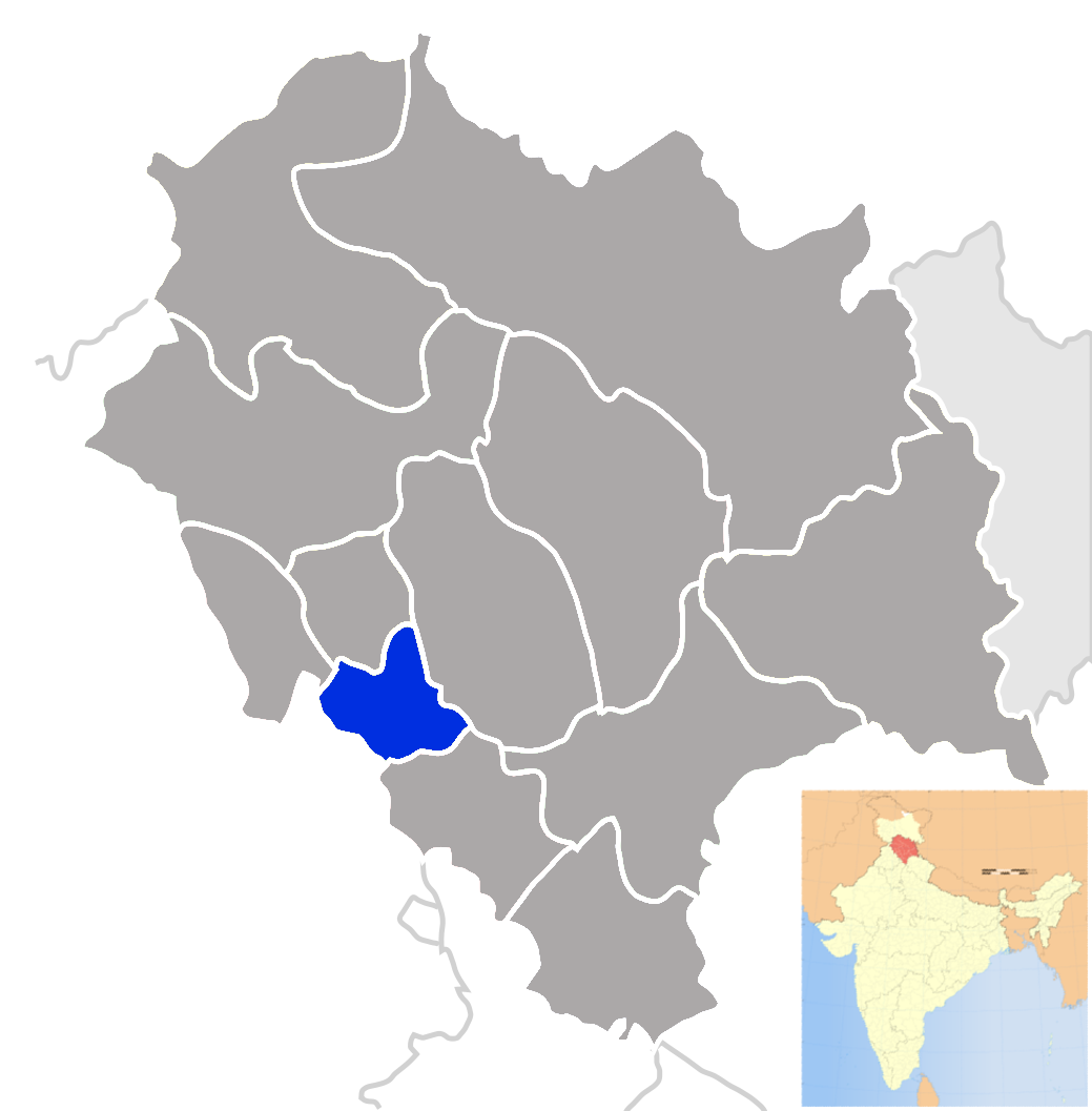 Bilaspur district of Himachal Pradesh